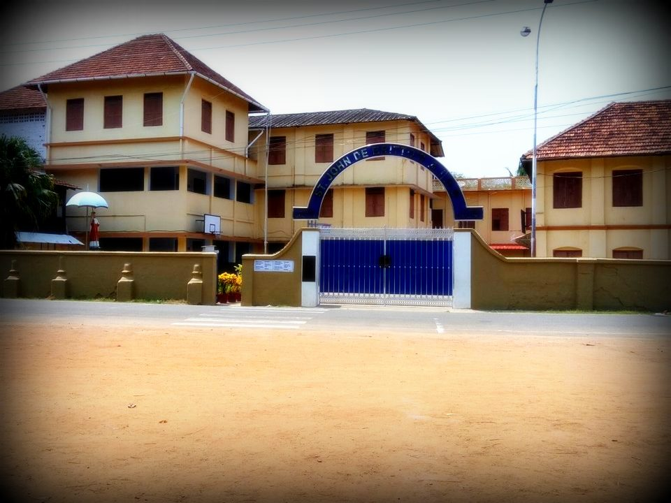 schools before renovation of Gate